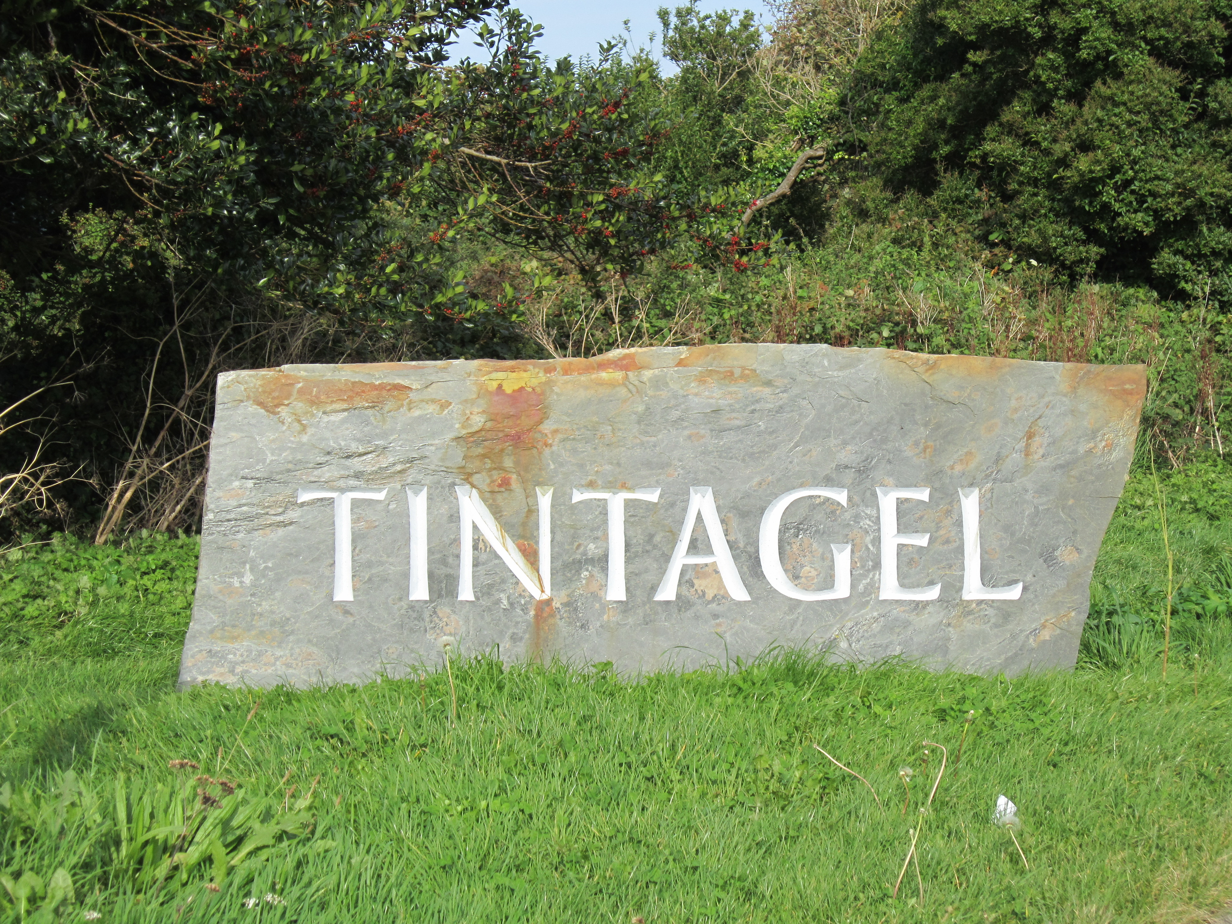 Around Tintagel, Cornwall, England